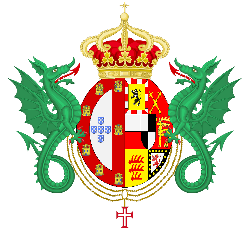 Coat of Arms of Queen Consort Stephanie of Portugal